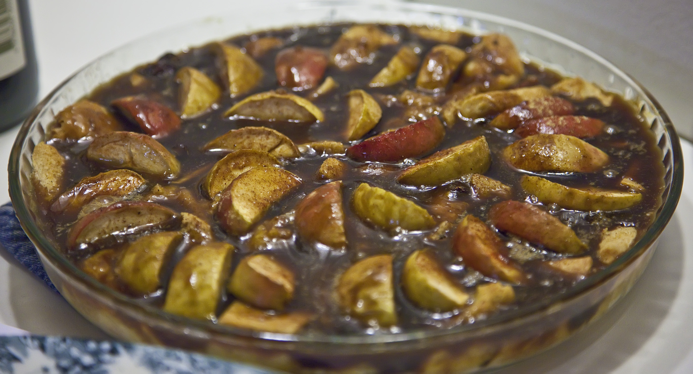 Bread pudding with apples and whisky sauce